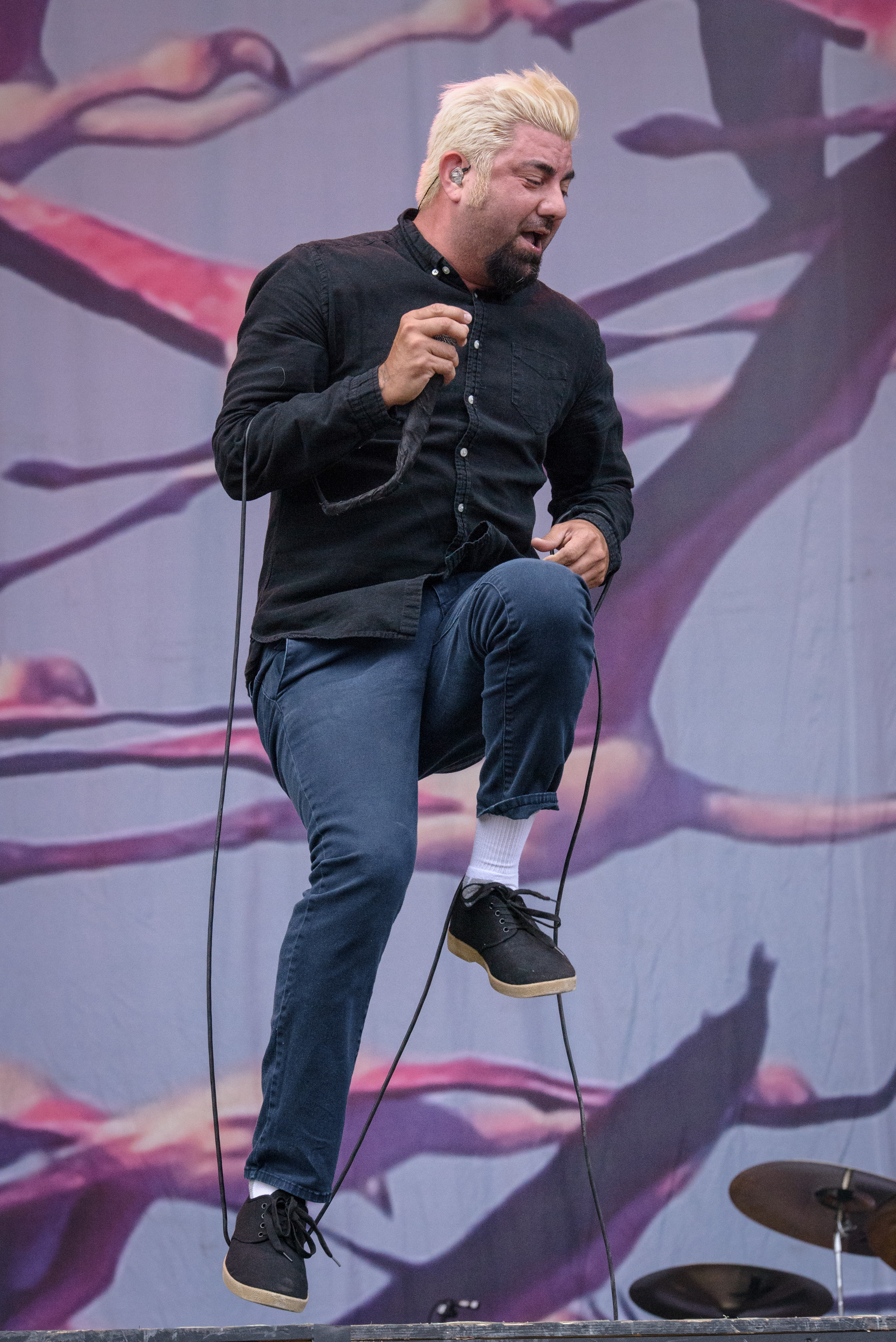 Deftones @ Rock im Park 2016